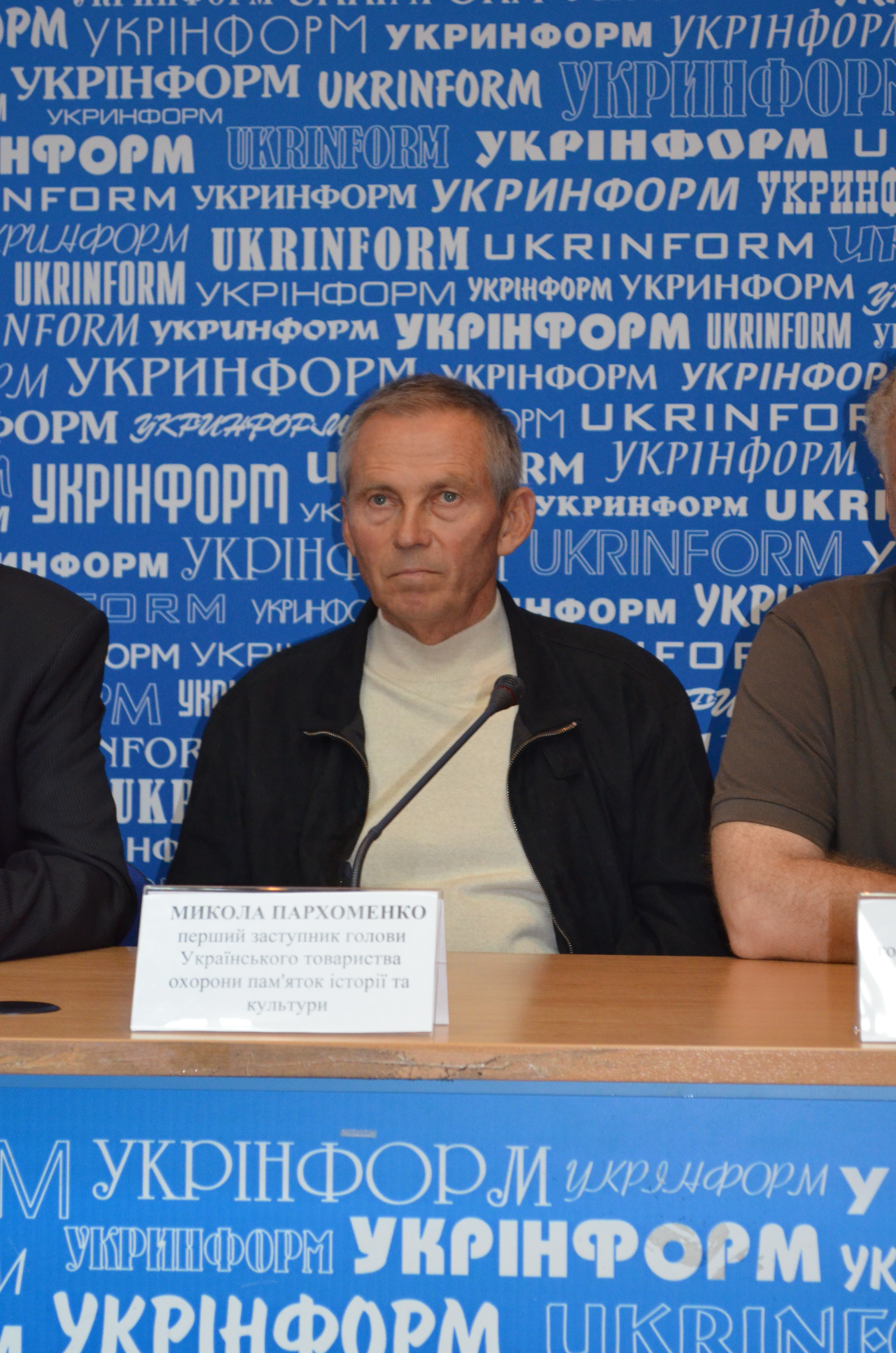 Wiki Loves Monuments Ukraine 2013 presentation conference